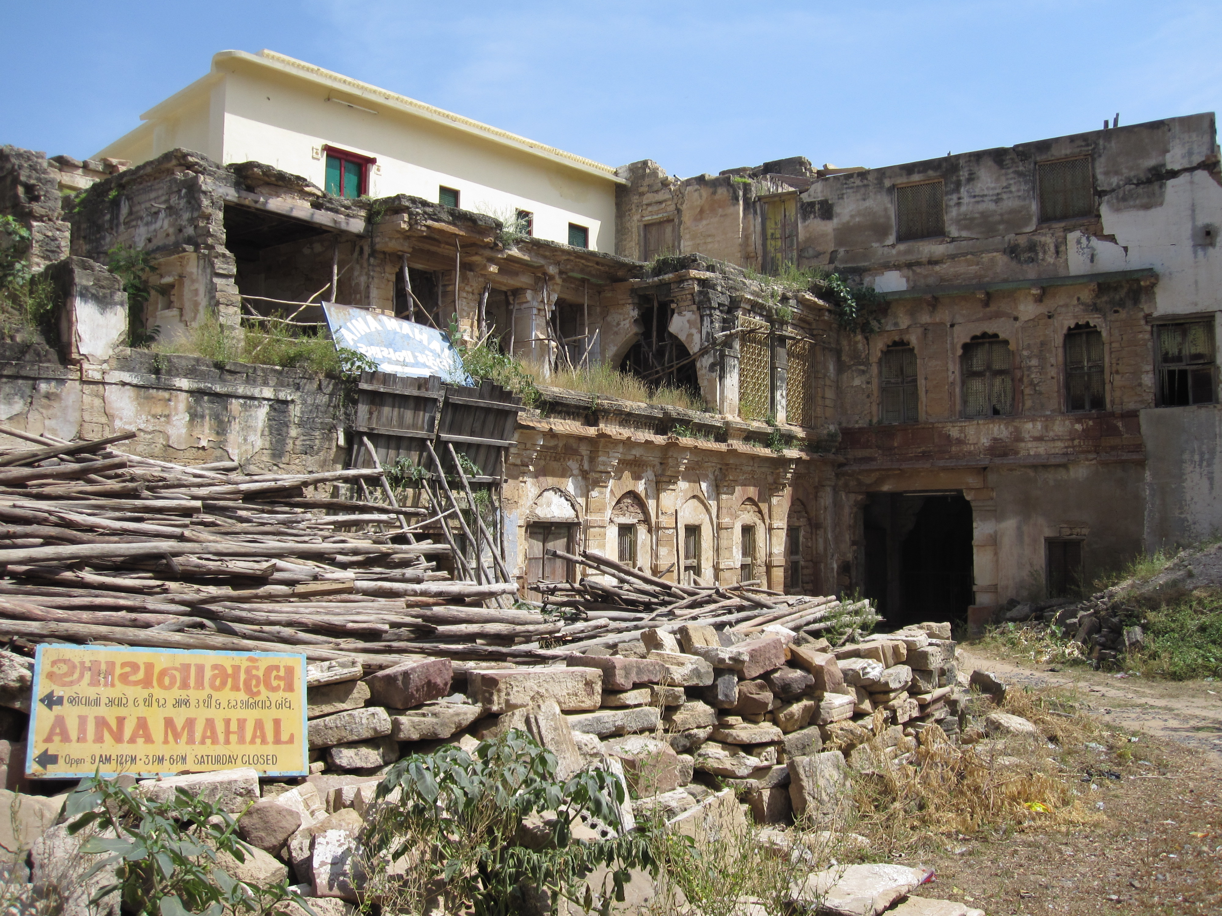 Ruins in the Aina Mahal complex